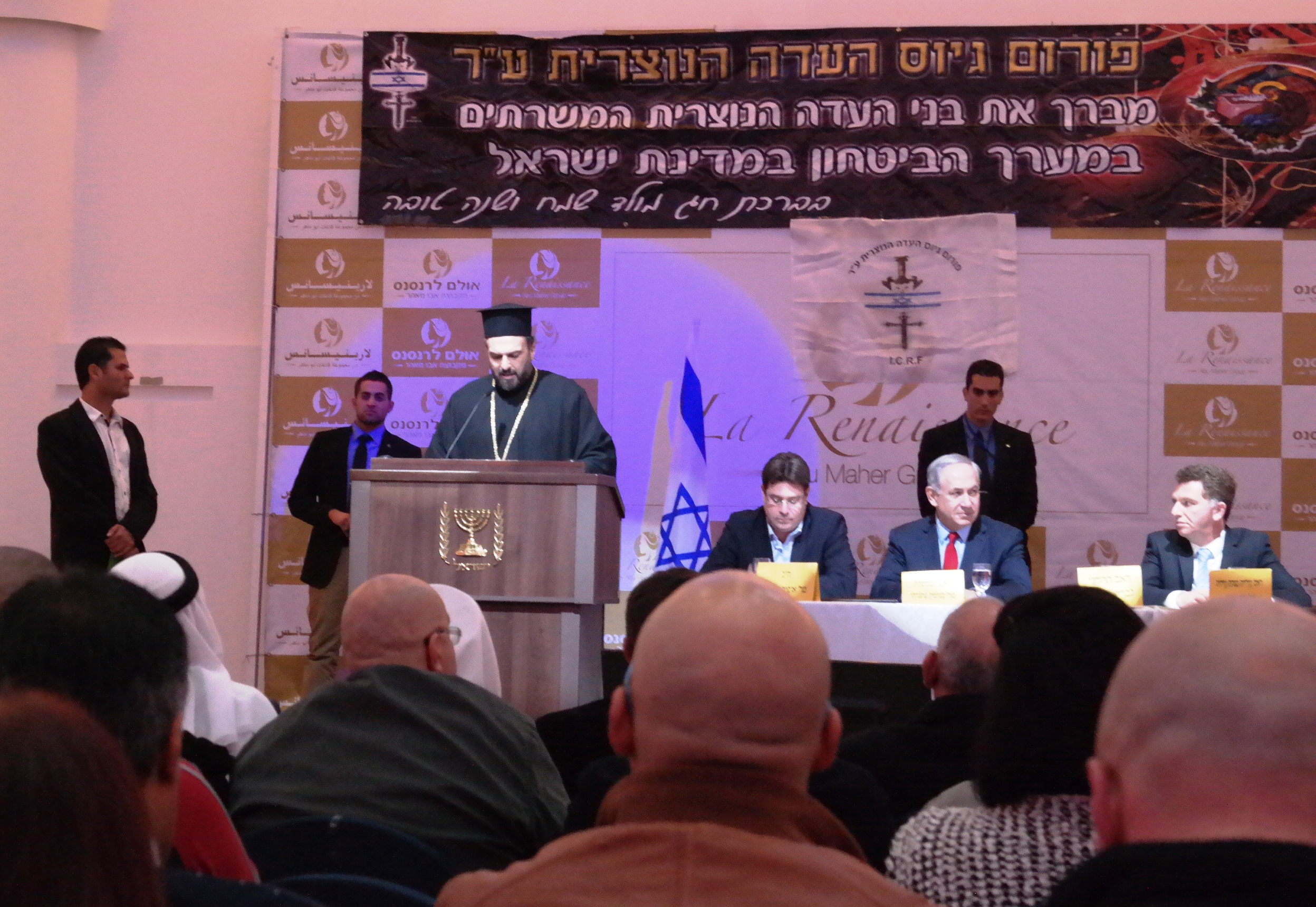 Father Gabriel addresses soldiers at an event of the Christian IDF Forum